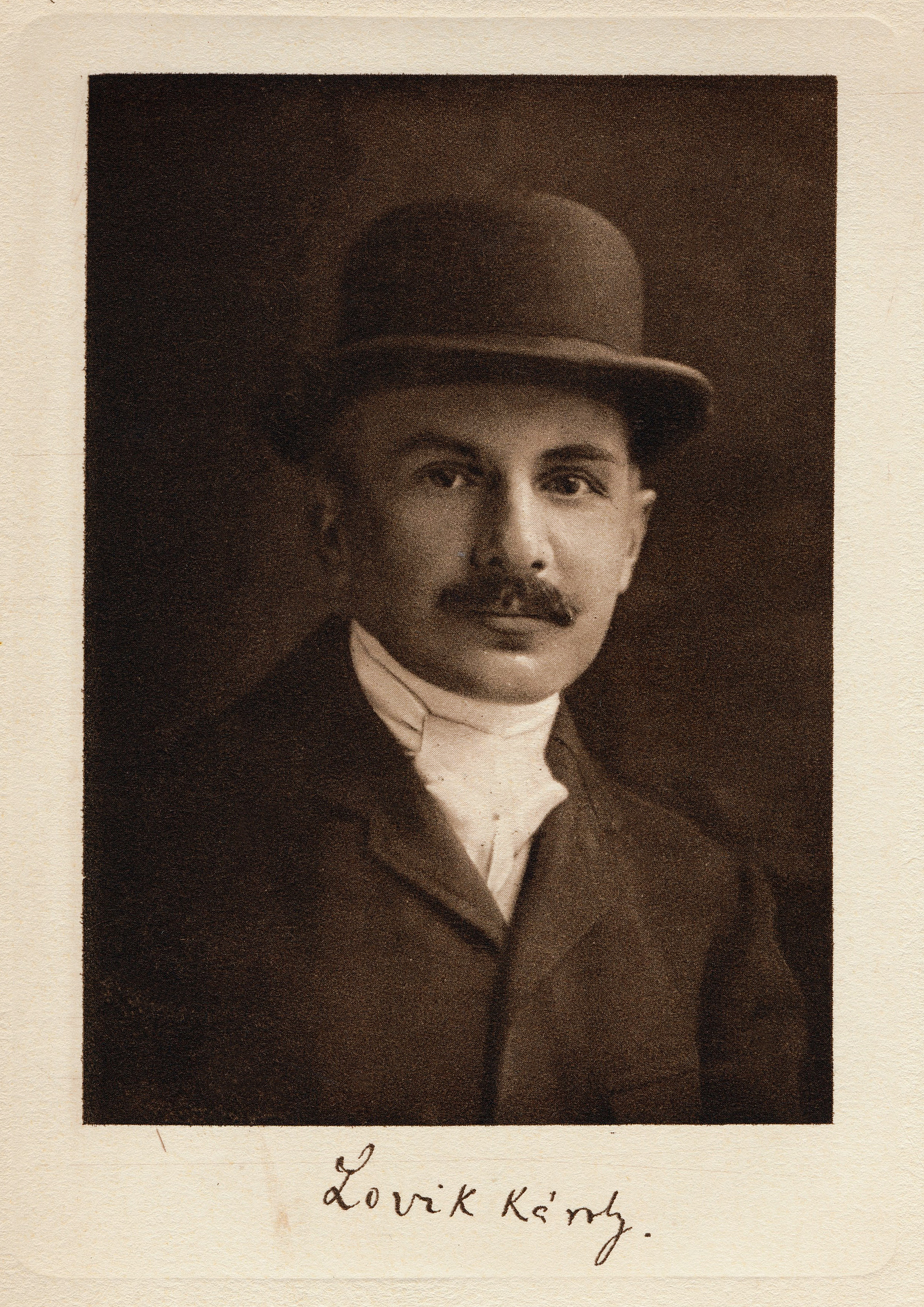 Károly Lovik (1874-1915) Hungarian writer